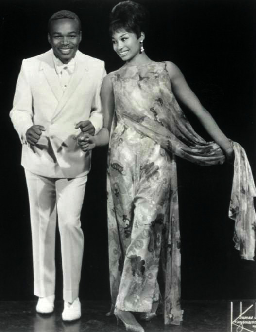 Publicity photo of the singing duo Peaches and Herb.